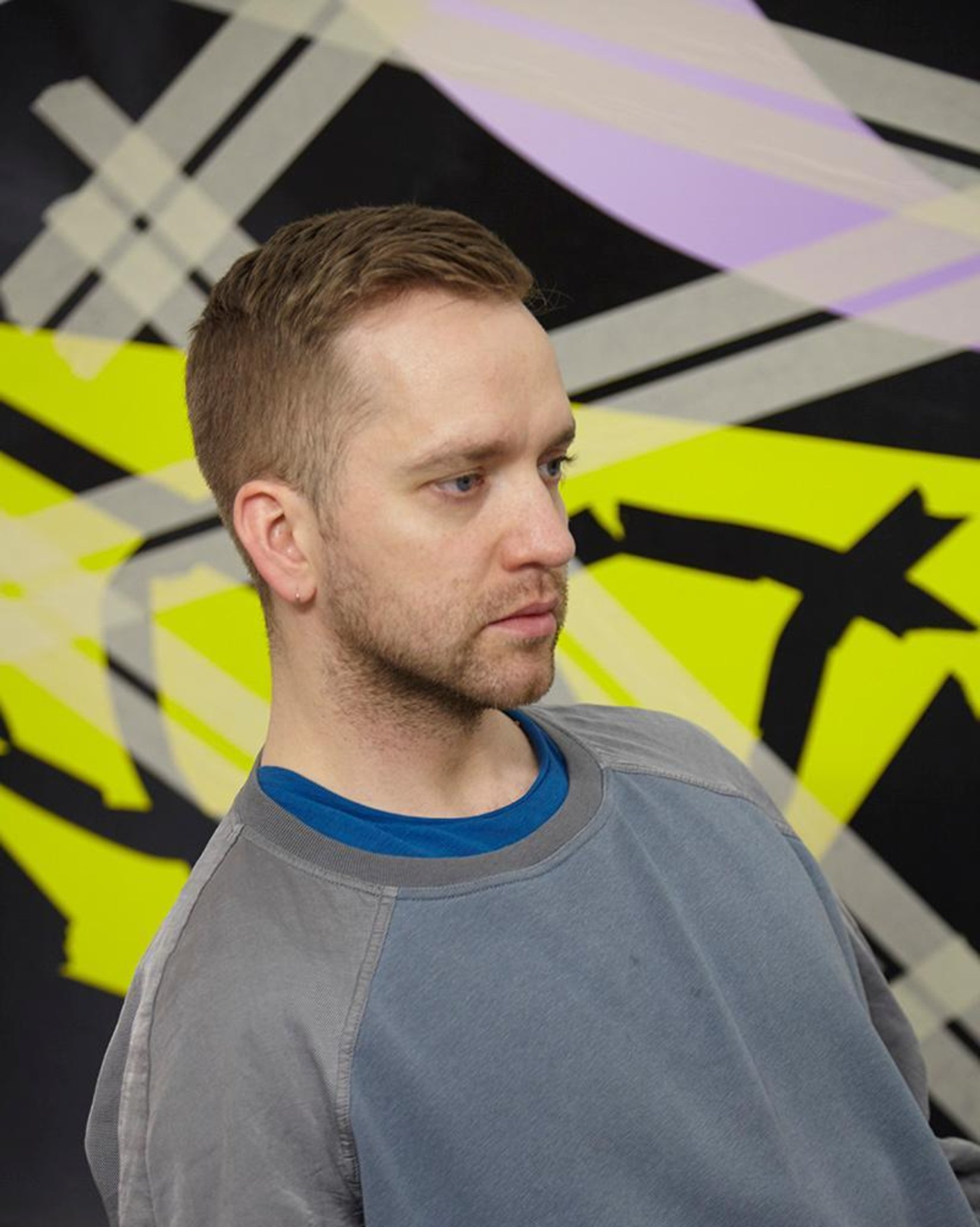 Photo of the british artist, Eddie Peake